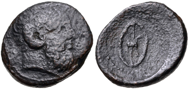 KYRENAICA, Kyrene. temp. Ophellas. Ptolemaic governor, first reign, circa 322-313 BC. Æ Unit (25mm, 11.14 g, 9h). Head of Ammon right / Wheel in perspective. Asolati 16A; SNG Copenhagen 1217; BMC 187.